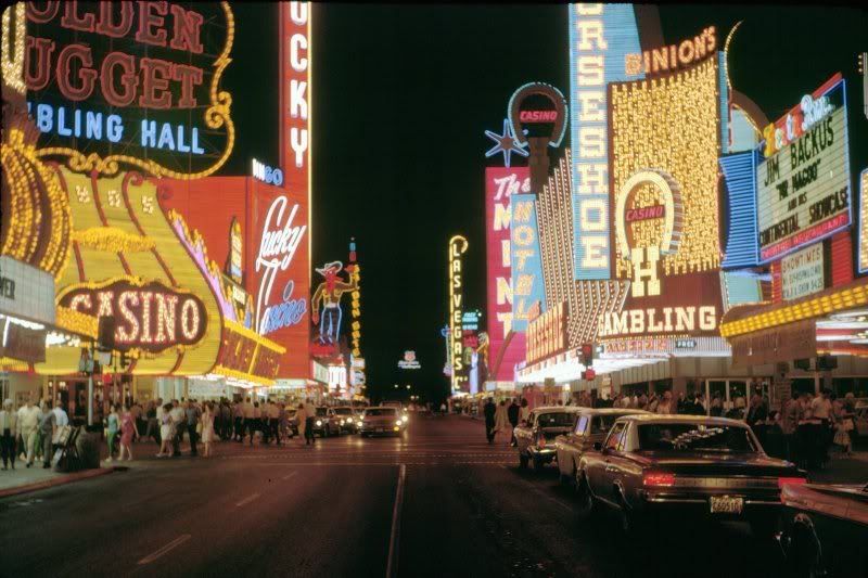 Golden Nugget and Pioneer Club along Fremont Street in the late 60s